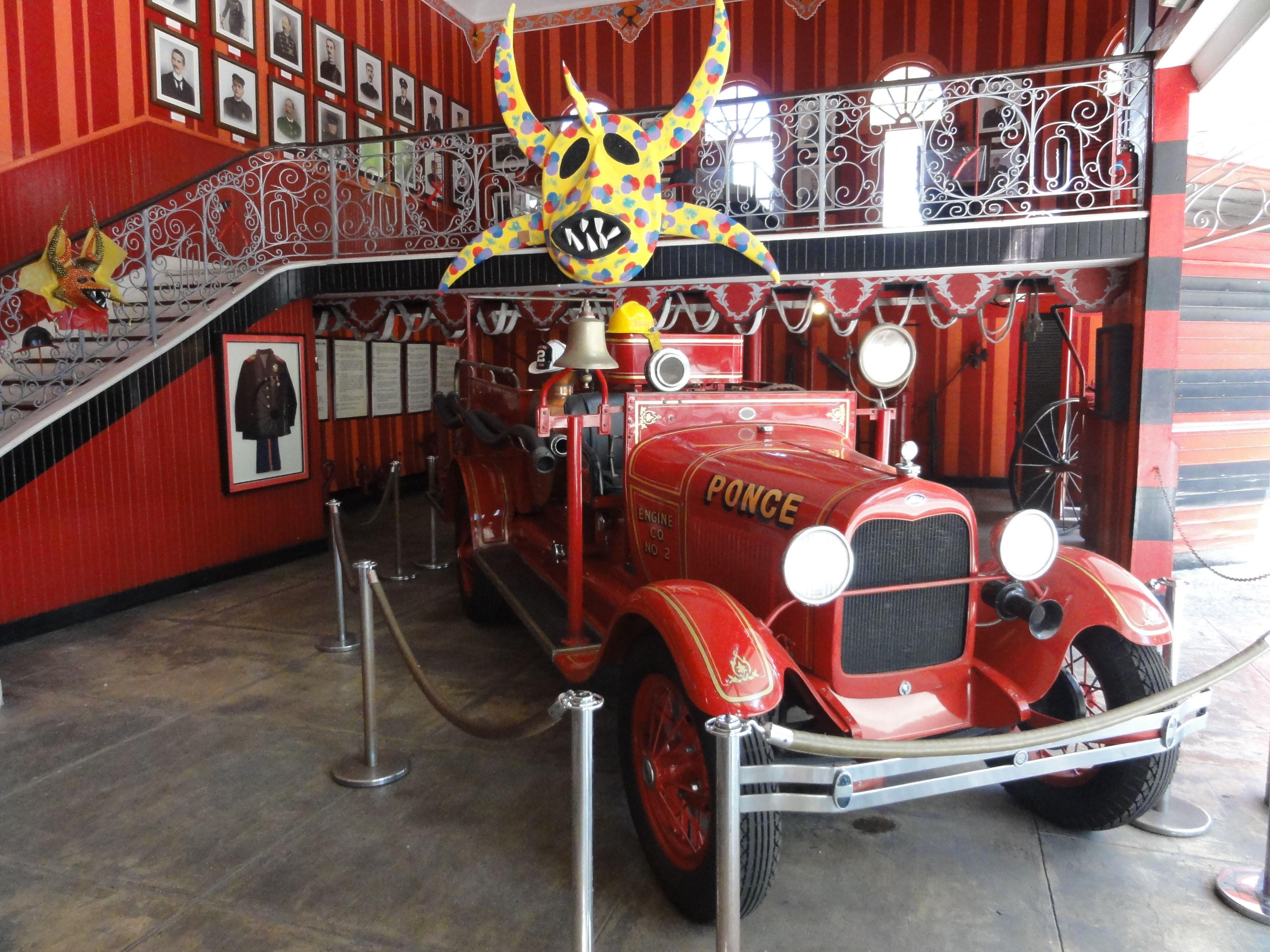 Antiguo camion para combatir incendios en Museo Parque de Bombas, Ponce, Puerto Rico.jpg